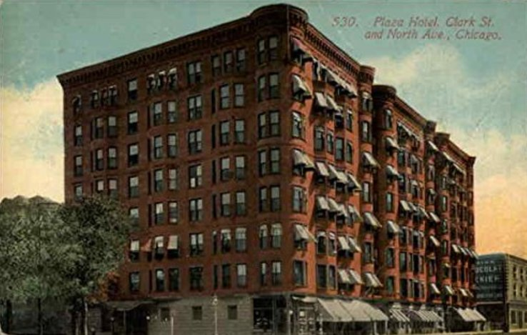 Plaza Hotel, Clark St. and North Ave Chicago, Illinois Original Vintage Postcard